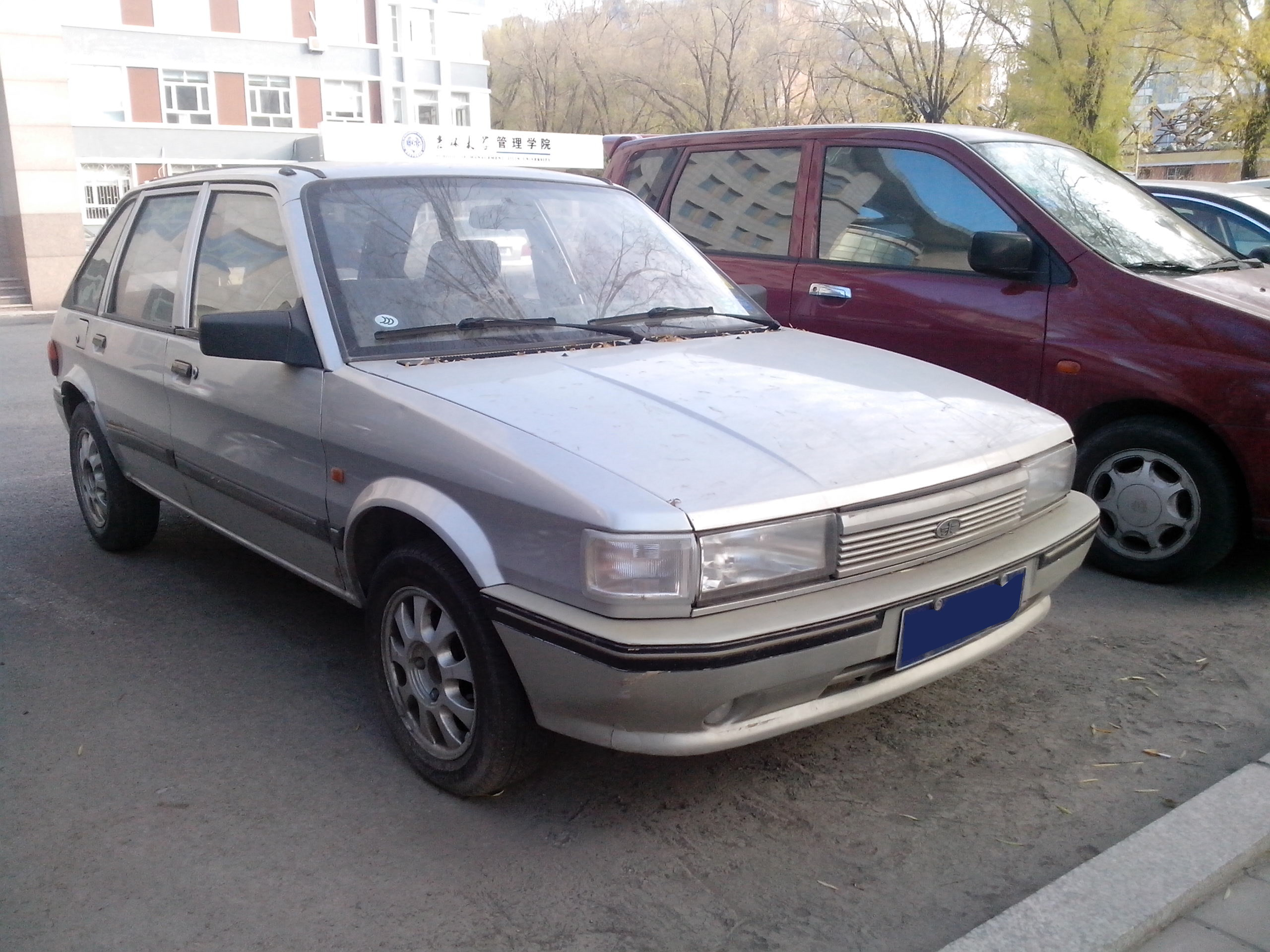 FAW Jiefang CA6400UA. The later Etsong's front styling was derived from Austin/MG Montego (as described in Top Gear: Season 18 Episode 02), but this one is still all Maestro. As for its name, CA means Changchun First Automobile Workshop; 6 stands for its classification--bus (as described in Top Gear, this car was registered as bus due to contemporary regulations); 40 means this car is about 4.0 meters long.